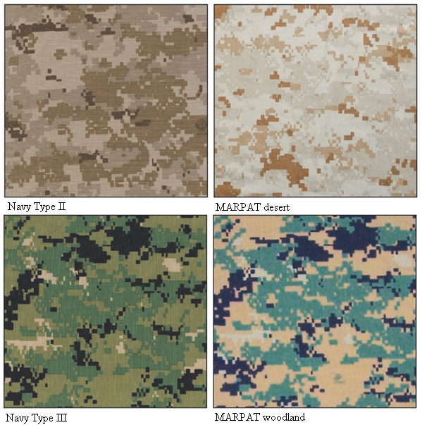 MARPAT patterns compared to the proposed new Navy Working Uniform Type II and Type III patterns